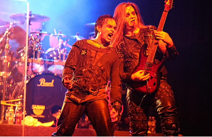 Cradle of Filth performs live on stage at Revolution Live in Fort Lauderlade, Florida during their 2011 tour Creatures from the Black Abyss